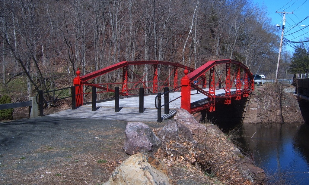 Here is a picture of Red Bridge, one of only four lenticular trusses remaining in the state of Connecticut.